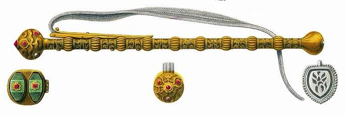 Lash